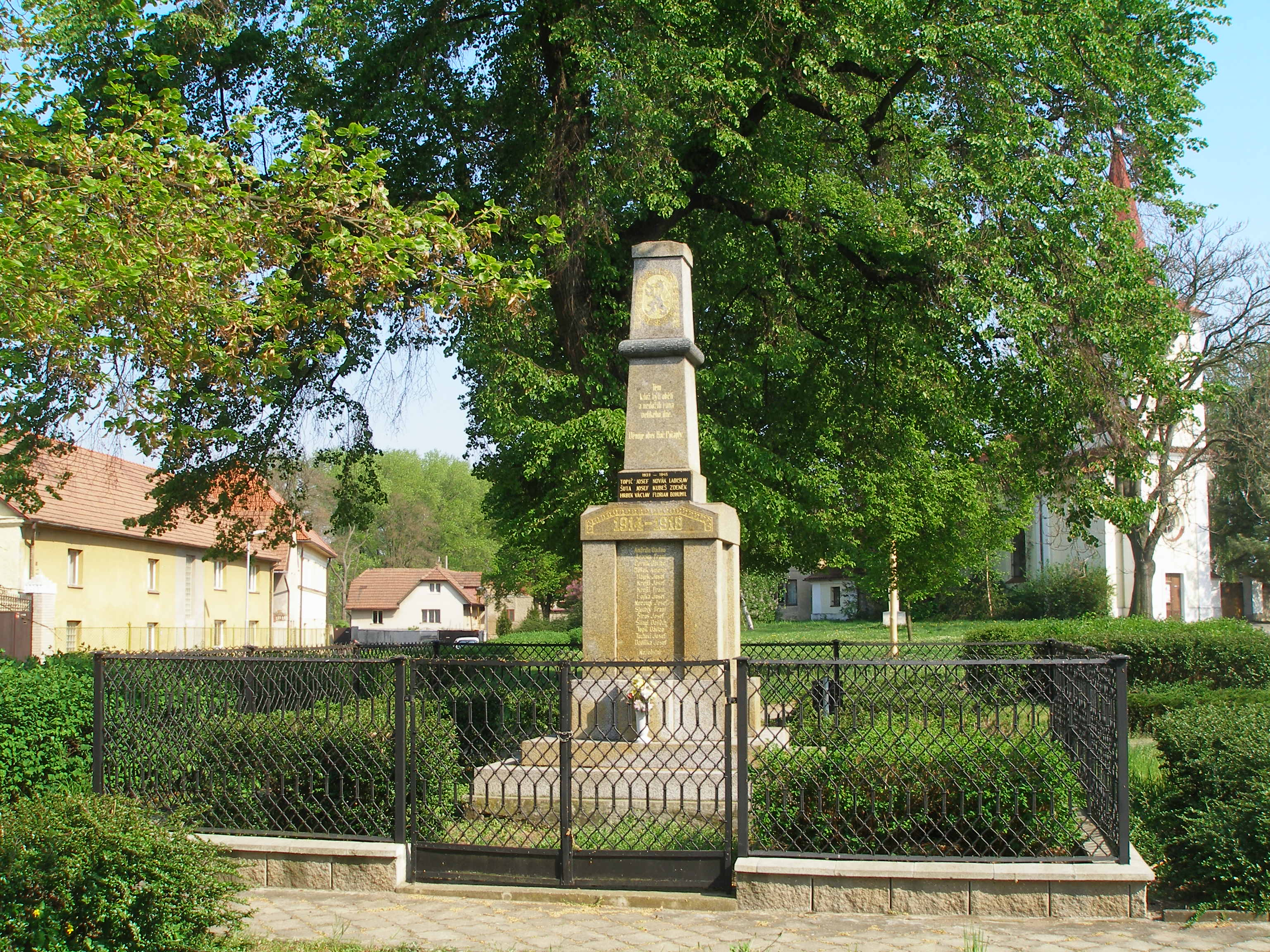 Monument to the fallen in the First and Second World War in the Horní Počaply.